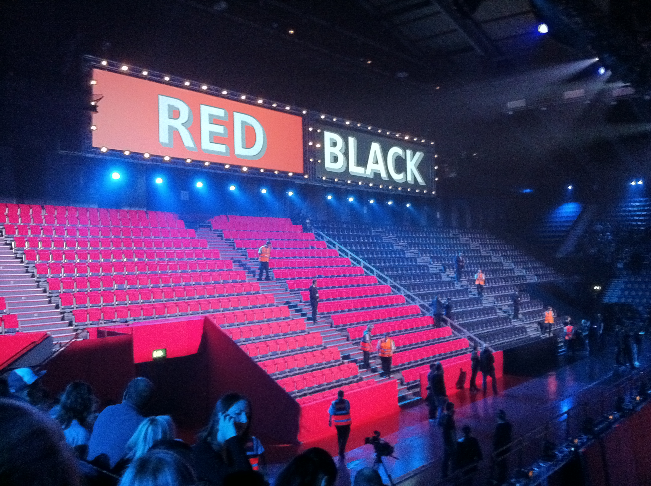 A photograph taken on an iPhone 4 of the Red or Black area of the "Red or Black Arena", which was Wembley Arena, London.